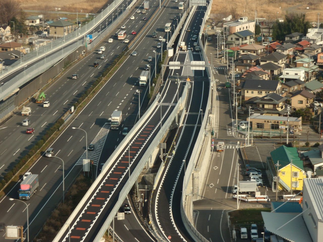 Atsugi Interchange exit, Tomei Expressway for Nagoya. Connection road overrides the exit taxiing way from the main line